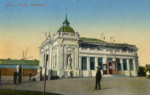 Phenomen cinema in Baku. Postcard of the Russian Empire